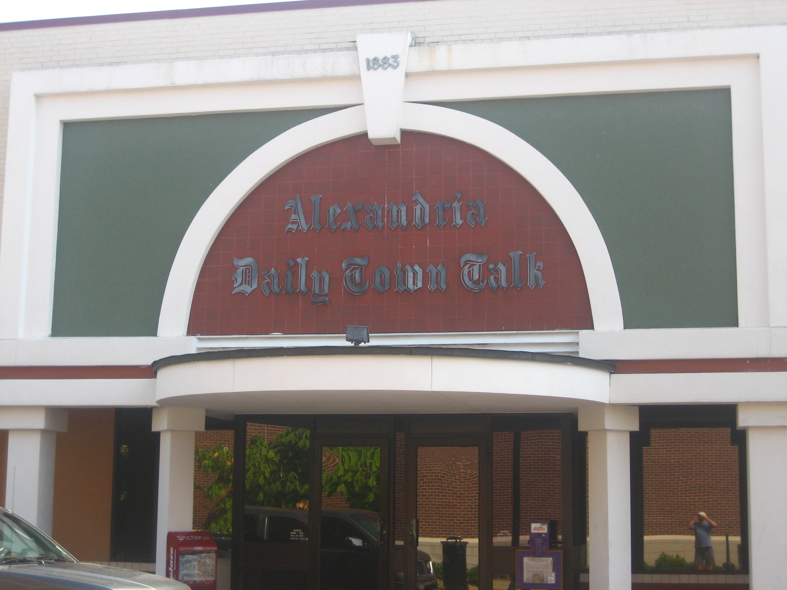 I took photo on Aug. 1, 2008.Billy Hathorn (talk) 03:44, 15 August 2008 (UTC)